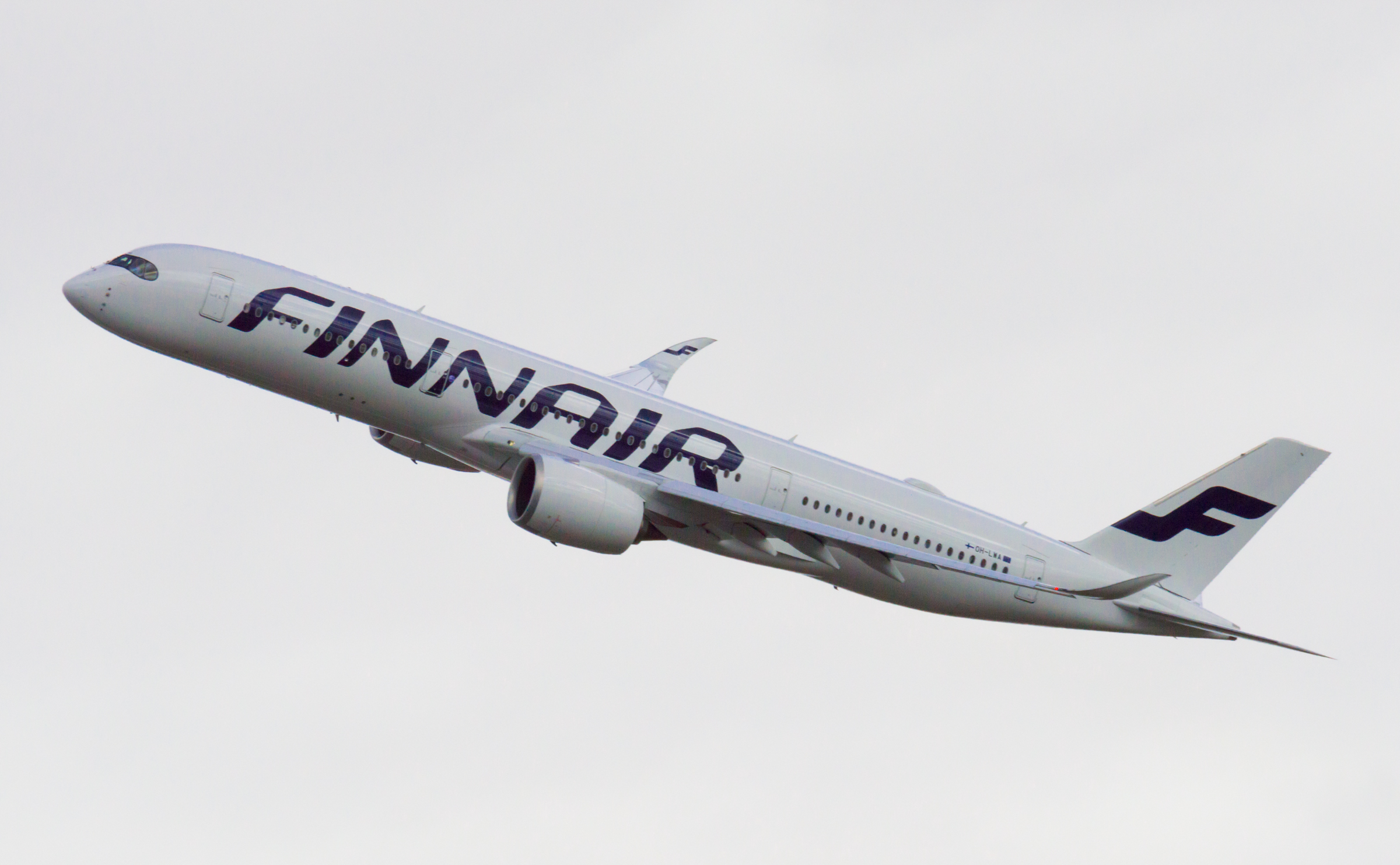 Waving goodbye as she departs Toulouse on delivery flight.